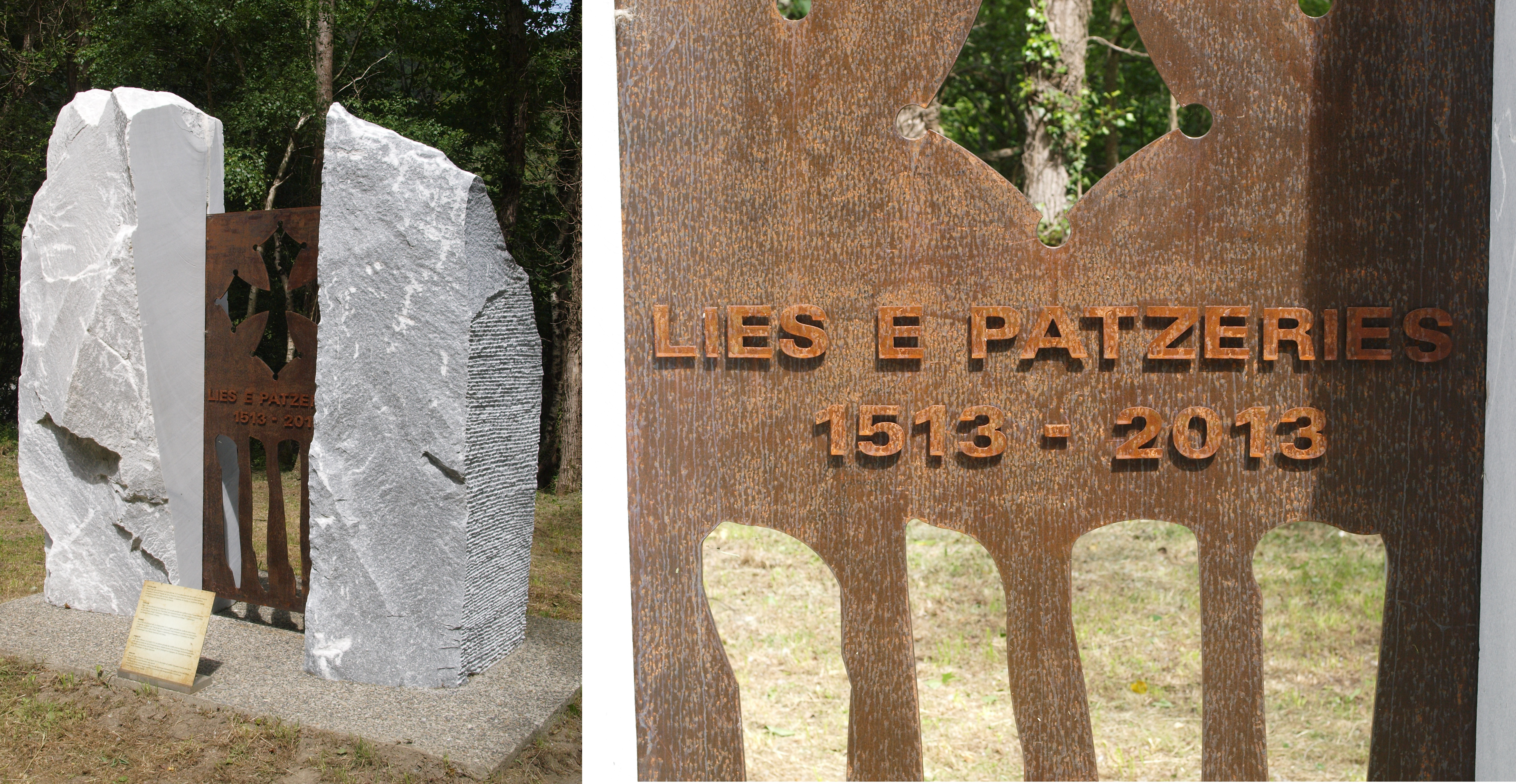 The stele ​​by scultpeuse Aranese Gloria Coronas and erected in 2013 at the Plan d'Arrem near Fos (Haute Garonne, France) to celebrate the 500th anniversary of the treaty of "Lies et Passeries."